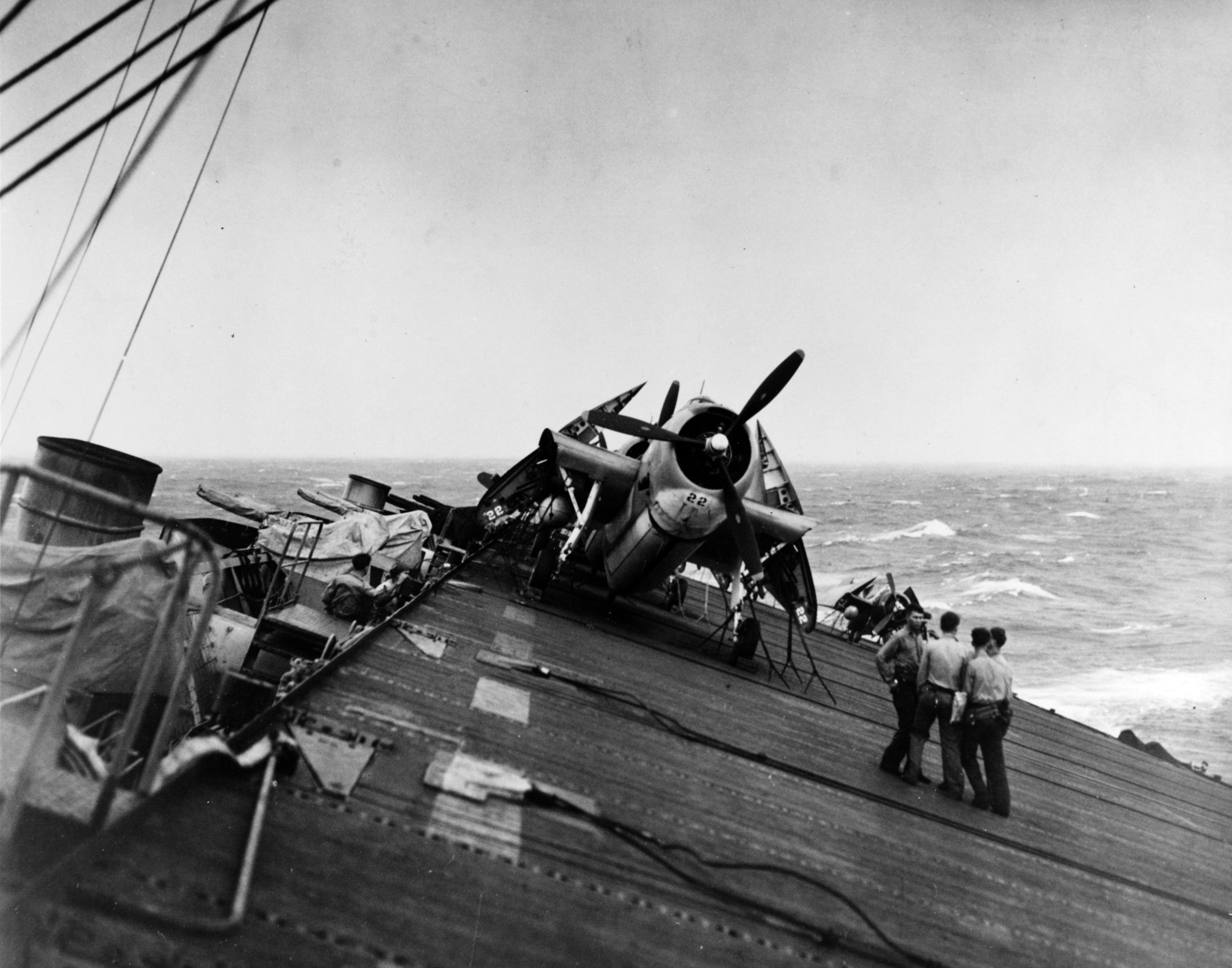 The U.S. escort carrier USS Anzio (CVE-57) rolling heavily while trying to maintain course and speed during a typhoon east of the Philippines, 17 December 1944. Note the casual attitude of the deck crew. A Grumman TBF (or TBM) Avenger is visible on the left, a Grumman F4F (or FM) Wildcat is tied to far end of the deck.